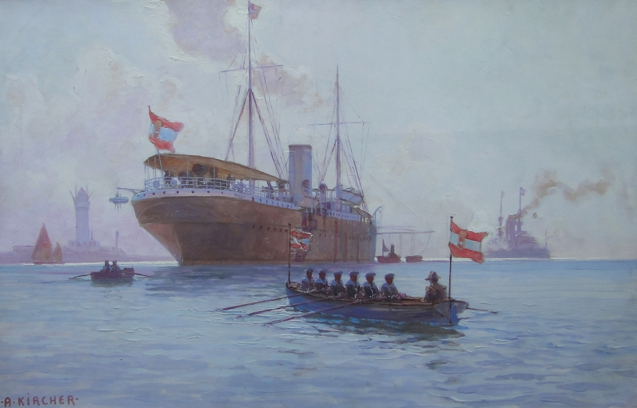 Austrian Post Steamer Pelican moored in the bay of Trieste (see old lighthouse Lanterna) at anchor - 1891